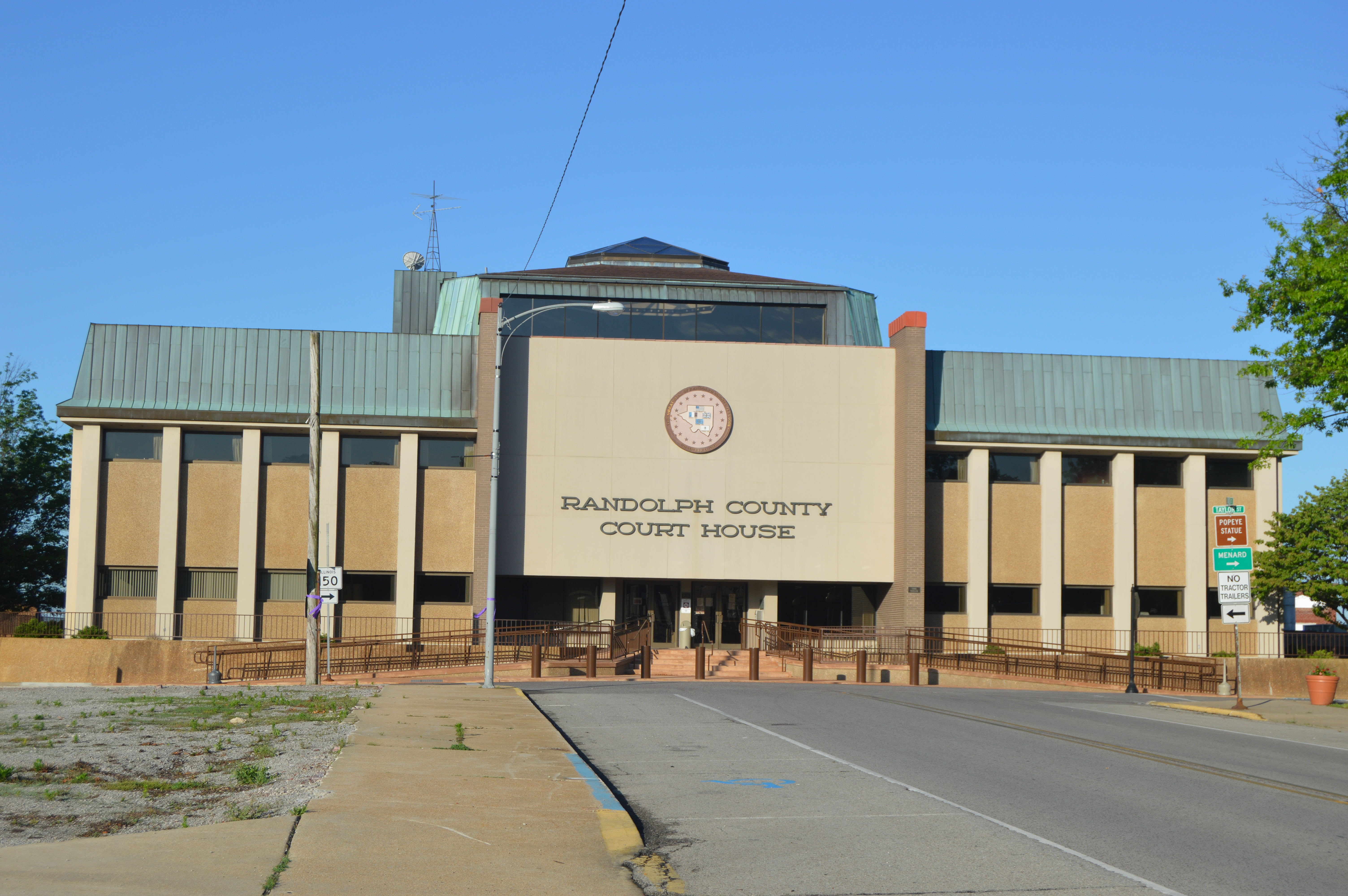 Front of the Randolph County Courthouse, located at 1 Taylor Street (Illinois Route 150) in lower Chester, Illinois, United States. It was built in 1972.